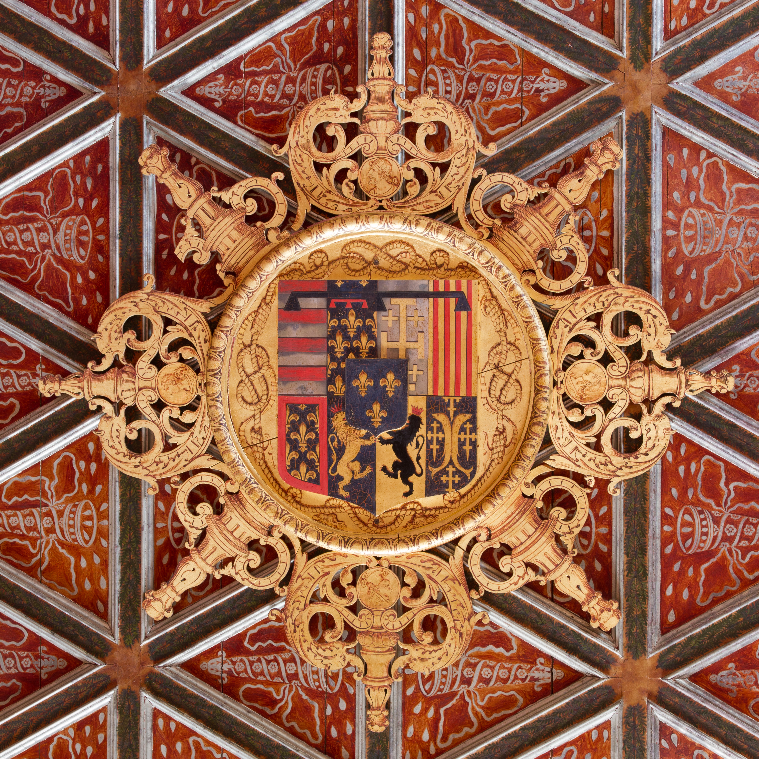 Coat of arms of Louise of Lorraine, on the ceiling of the room of the Five Queens, at the Château de Chenonceau.